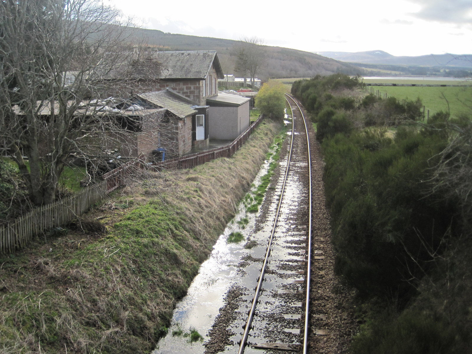 Meikle Ferry railway station (site), HighlandOpened in 1864 on the Highland Railway's line from Dingwall to Wick, this station was open for only 5 years, closing in 1869. View west towards Edderton and Wick, after a period of dampness.